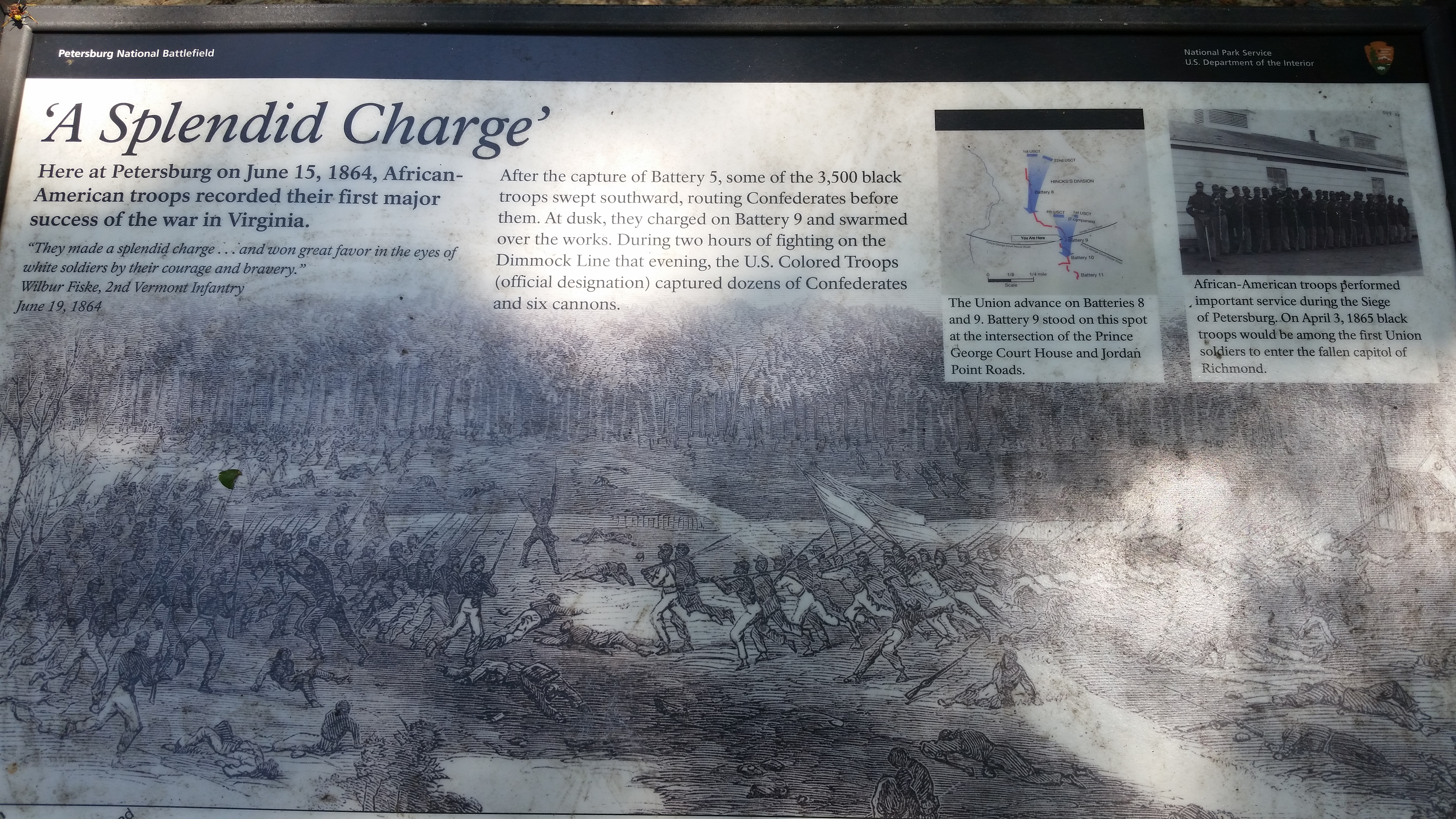 NPS Marker 2 for Second Battle of Petersburg